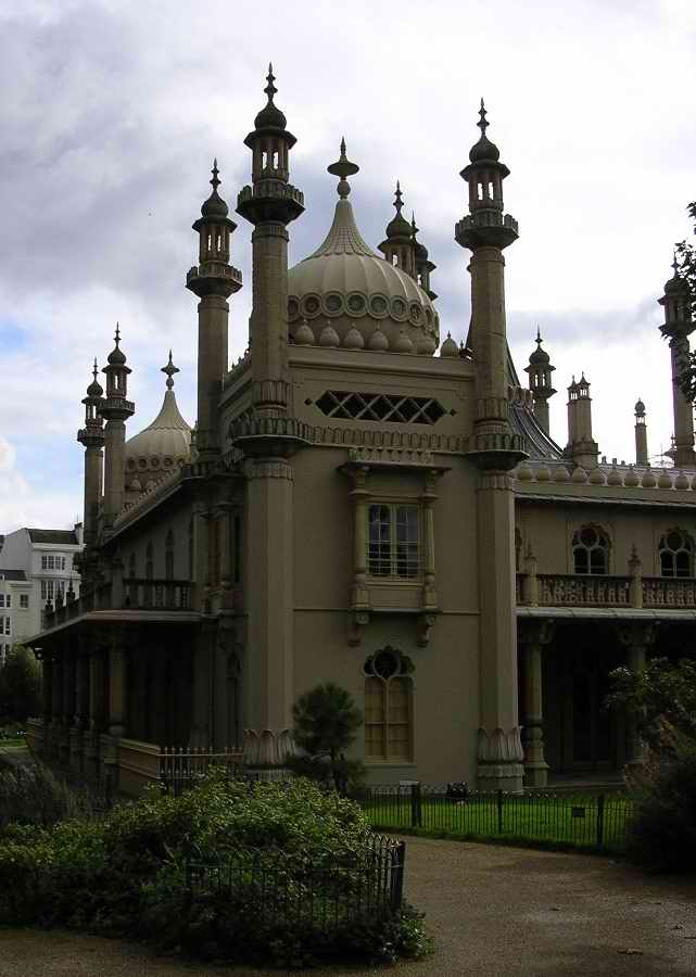 Royal Pavilion at Brighton